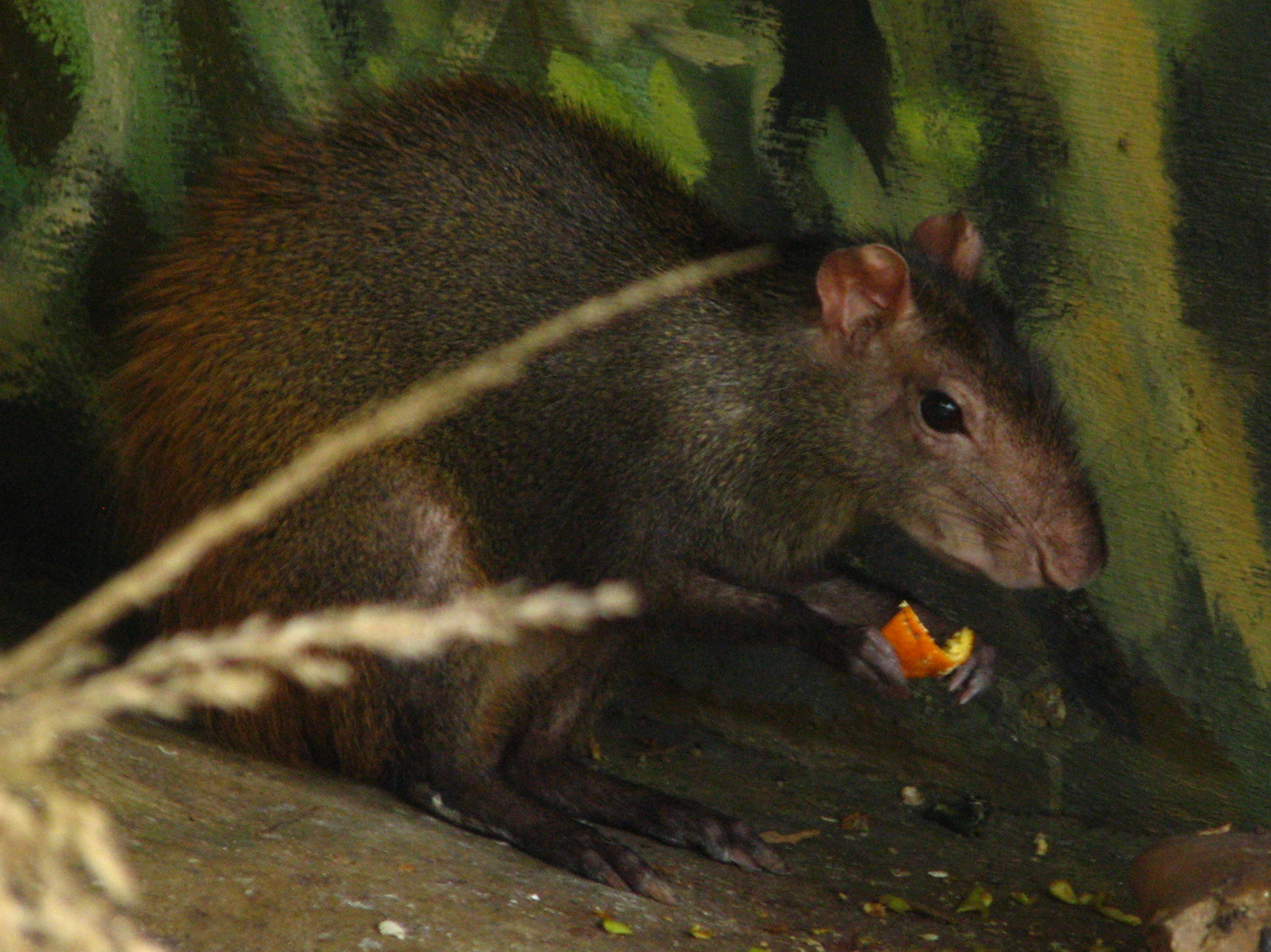 Brazilian Agouti, ZOO Dvůr Králové, Czech Republic